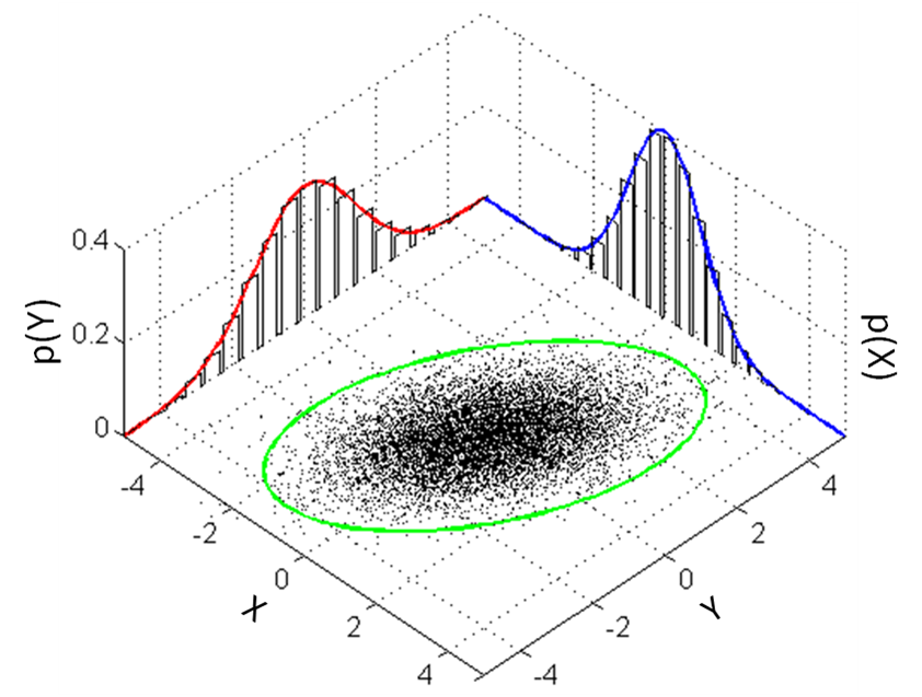 Illustration of a multivariate gaussian distribution and its marginals. Matlab code provided below.